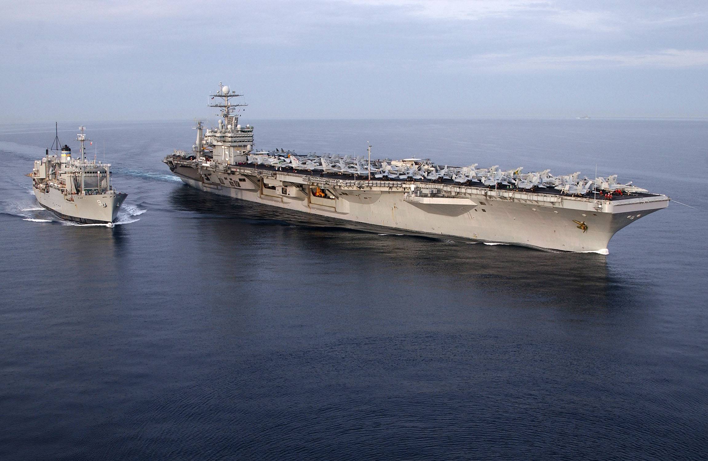 At sea with USS Harry S. Truman (CVN 75) Dec. 18, 2002 -- The Military Sealift Command auxiliary combat stores ship USNS Spica (T-AFS 9) approaches the Truman. Replenishment at sea (RAS) is the method by which provisions, ammunition and fuel are transferred from one ship to another at sea. The technique enables a fleet or naval formation to remain at sea for prolonged periods of time. Harry S. Truman is on a regularly scheduled deployment, conducting missions in support of Operation Enduring Freedom. U.S. Navy photo by Photographer’s Mate 2nd Class John L. Beeman. (RELEASED)